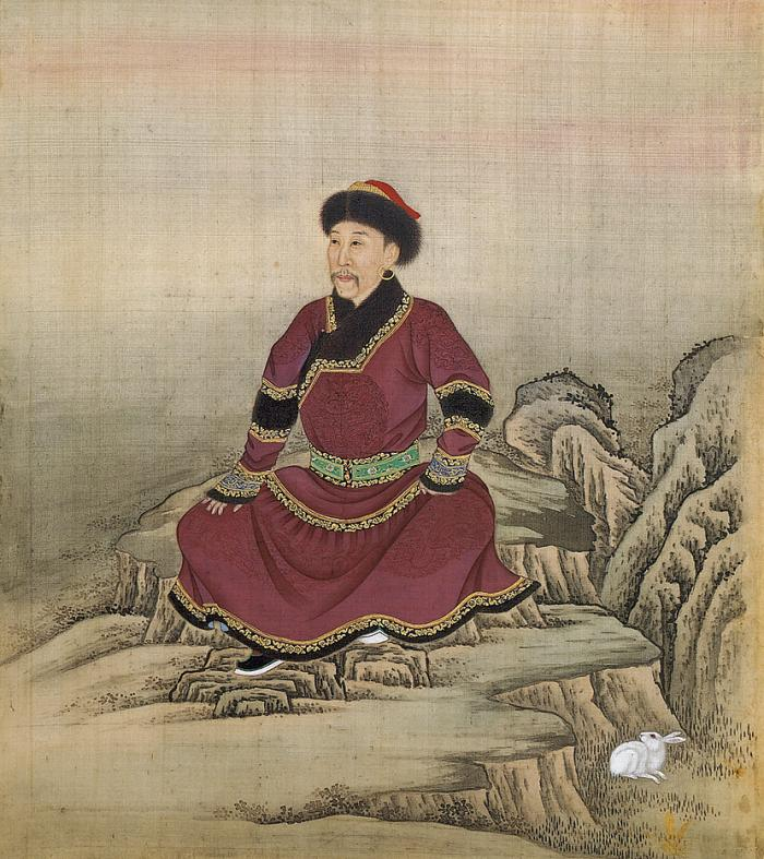 From Album of the Yongzheng Emperor in Costumes, by anonymous court artists, Yongzheng period (1723—35). One of 14 album leaves, colour on silk. The Palace Museum, Beijing.